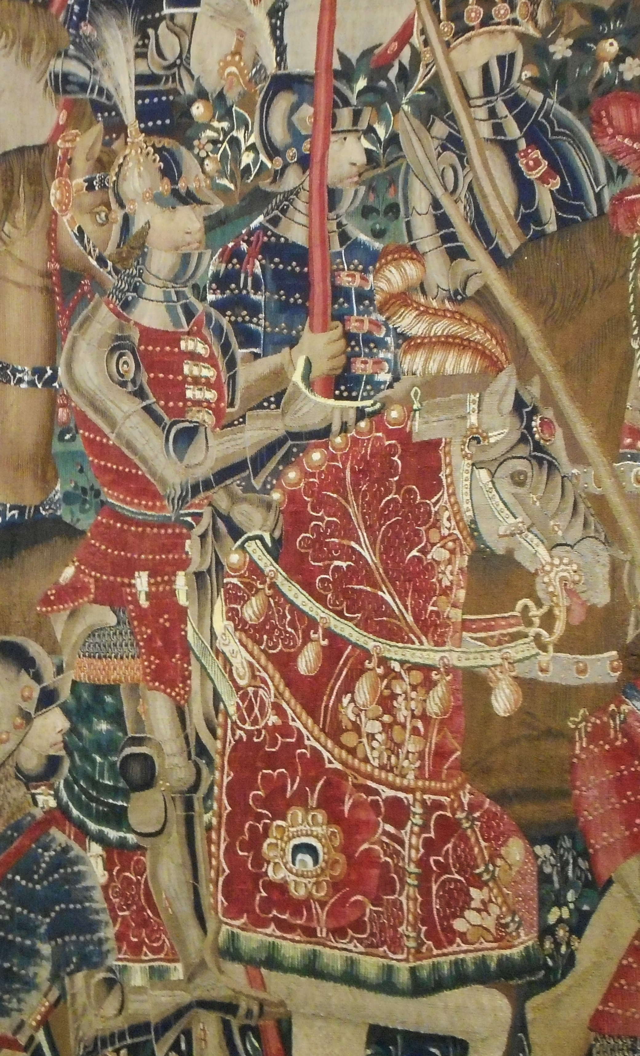 John of Braganza (future Marquis of Montemor-o-Novo) leads the Conquest of Tangiers in 1471 (detail of the Pastrana Tapestries, 15th century).